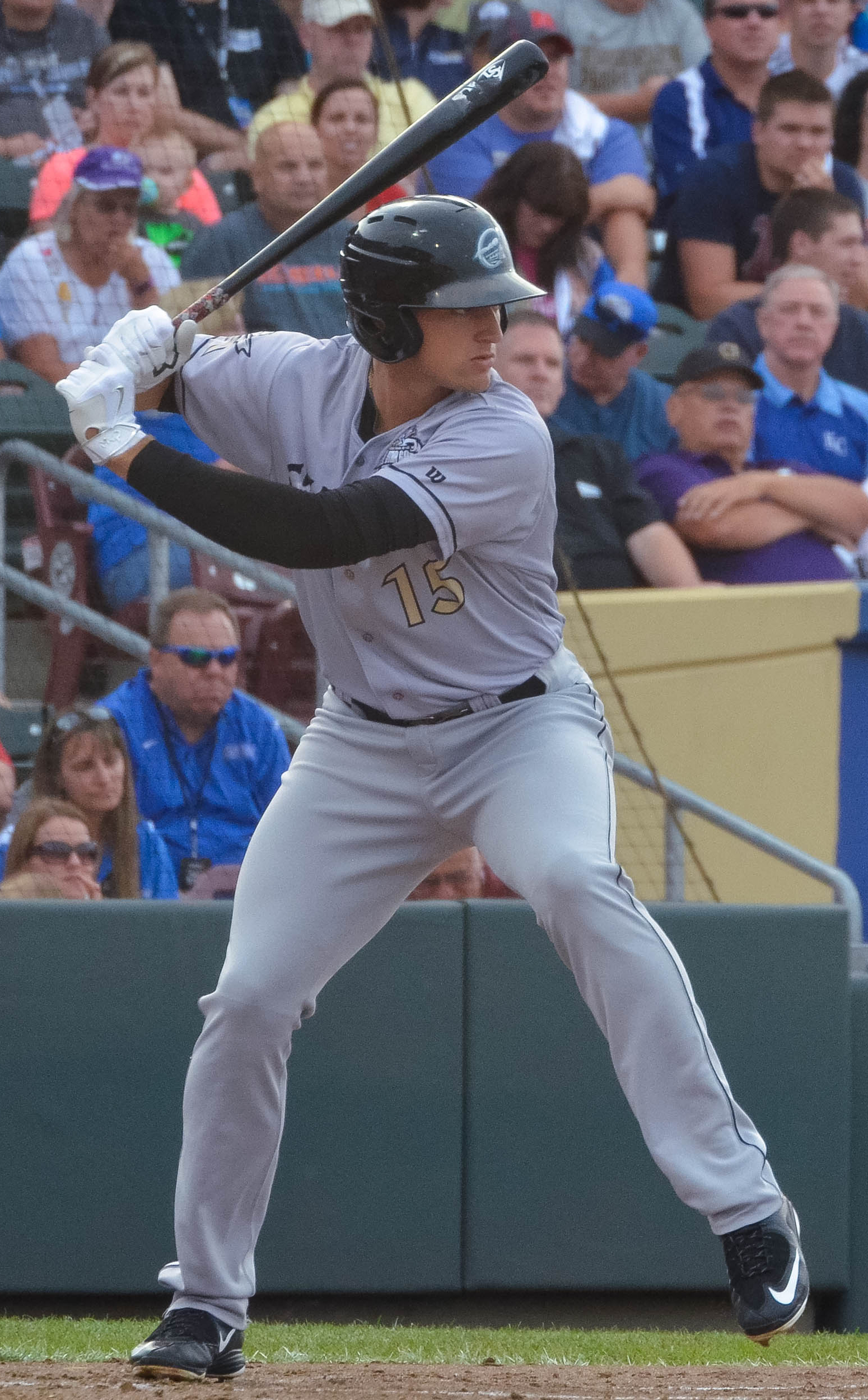 Trayce Thompson